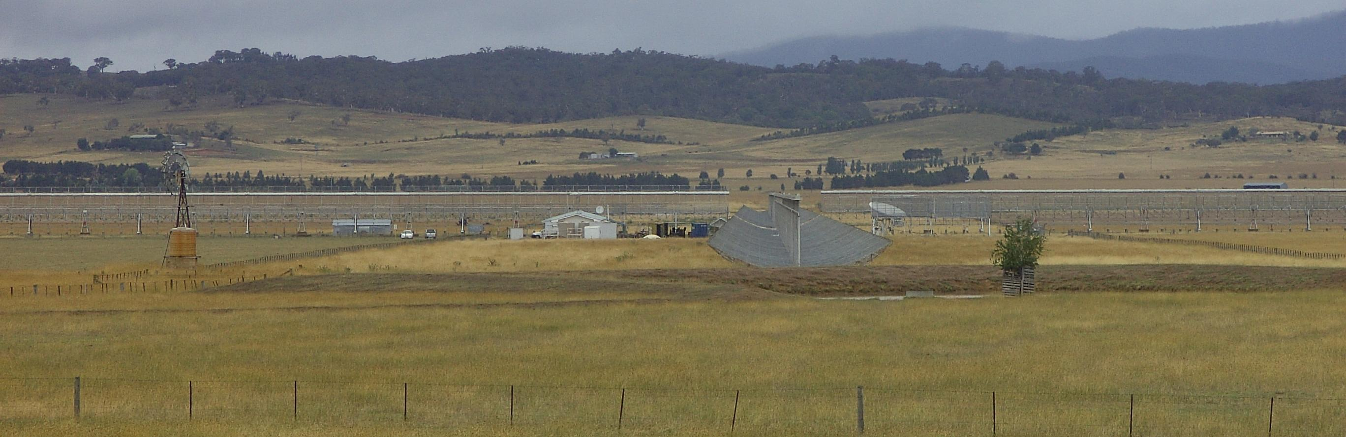 Molonglo Observatory Synthesis Telescope, looking at the northern end of the North-South arm of the former Molonglo Cross Telescope.